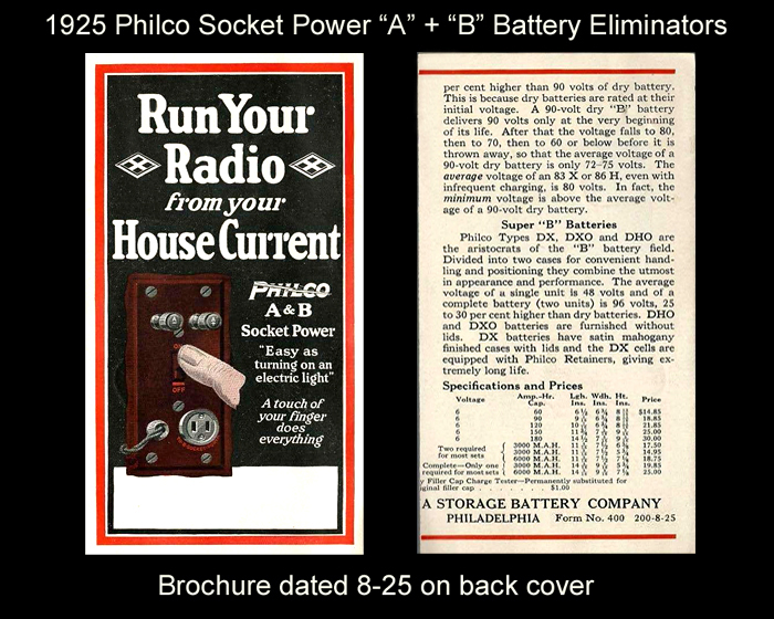 Philco's major First consumer product was the Socket Power Battery Eliminators, which its started to sell to the retail market in August 1925. This is a scanned image of the front and back sides of my brochure that I own. This scanned image is for the educational purposes only, for the 1925 history of Philco. Philco is no longer in business and was sold out to Ford in 1961 and Ford sold its ownership of Philco in 1974. The copyright on this Philco brochure was not renewed and it is in the public domain.